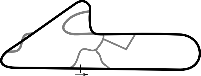 Layout of the Autódromo de León in León, México